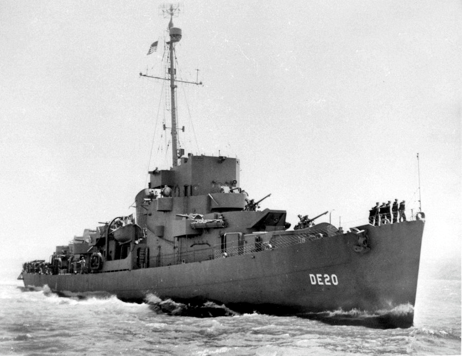 The U.S. Navy destroyer escort USS LeHardy (DE-20) underway off the Mare Island Naval Shipyard, California (USA), on 7 July 1943.